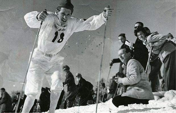 Martin Lundström on his way to win the gold medal in the 18 km event at the 1948 Winter Olympics. Swedes Nils Östensson came in second place and Gunnar Eriksson in third.